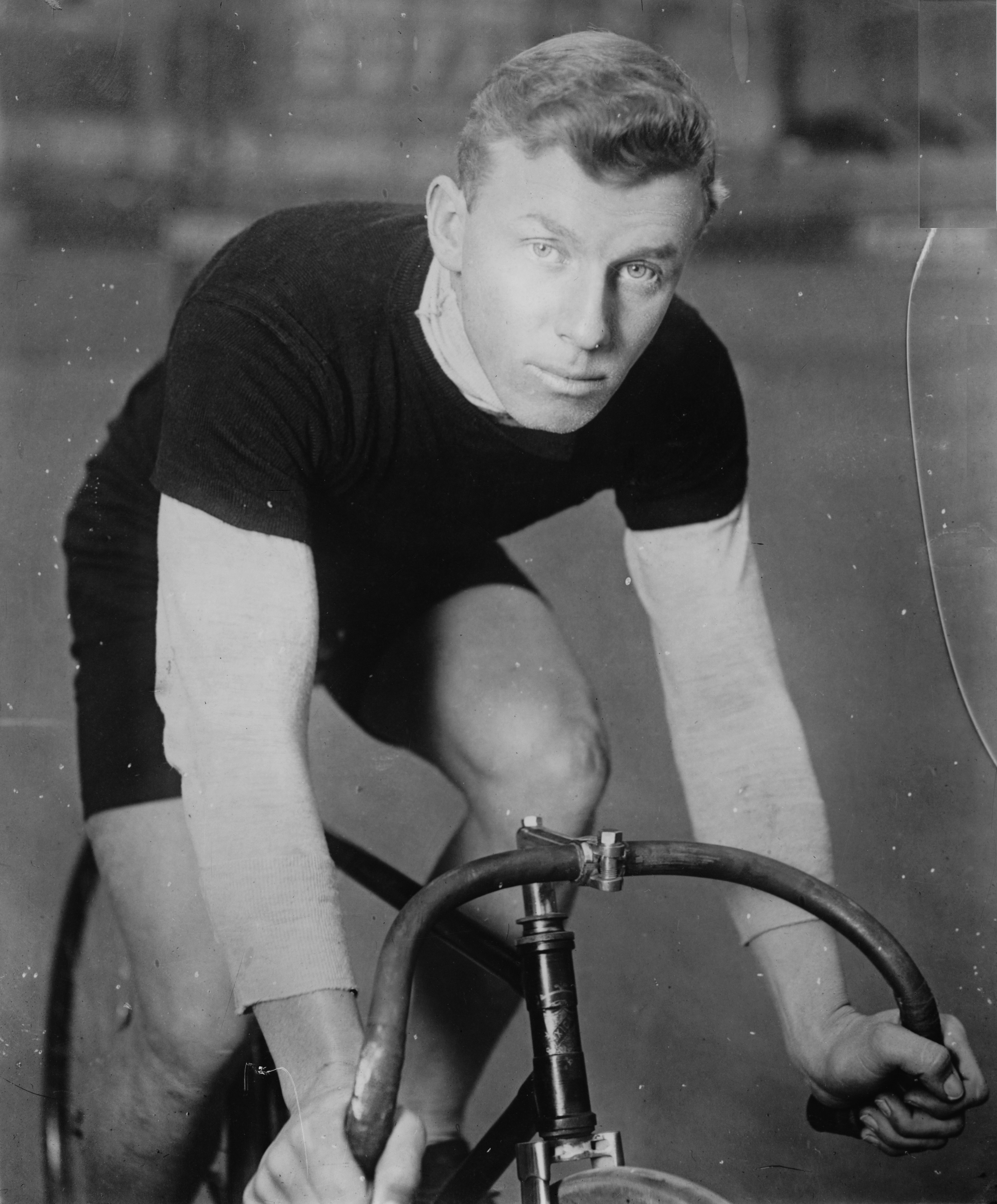 Alfred Goullet, Australian track racer